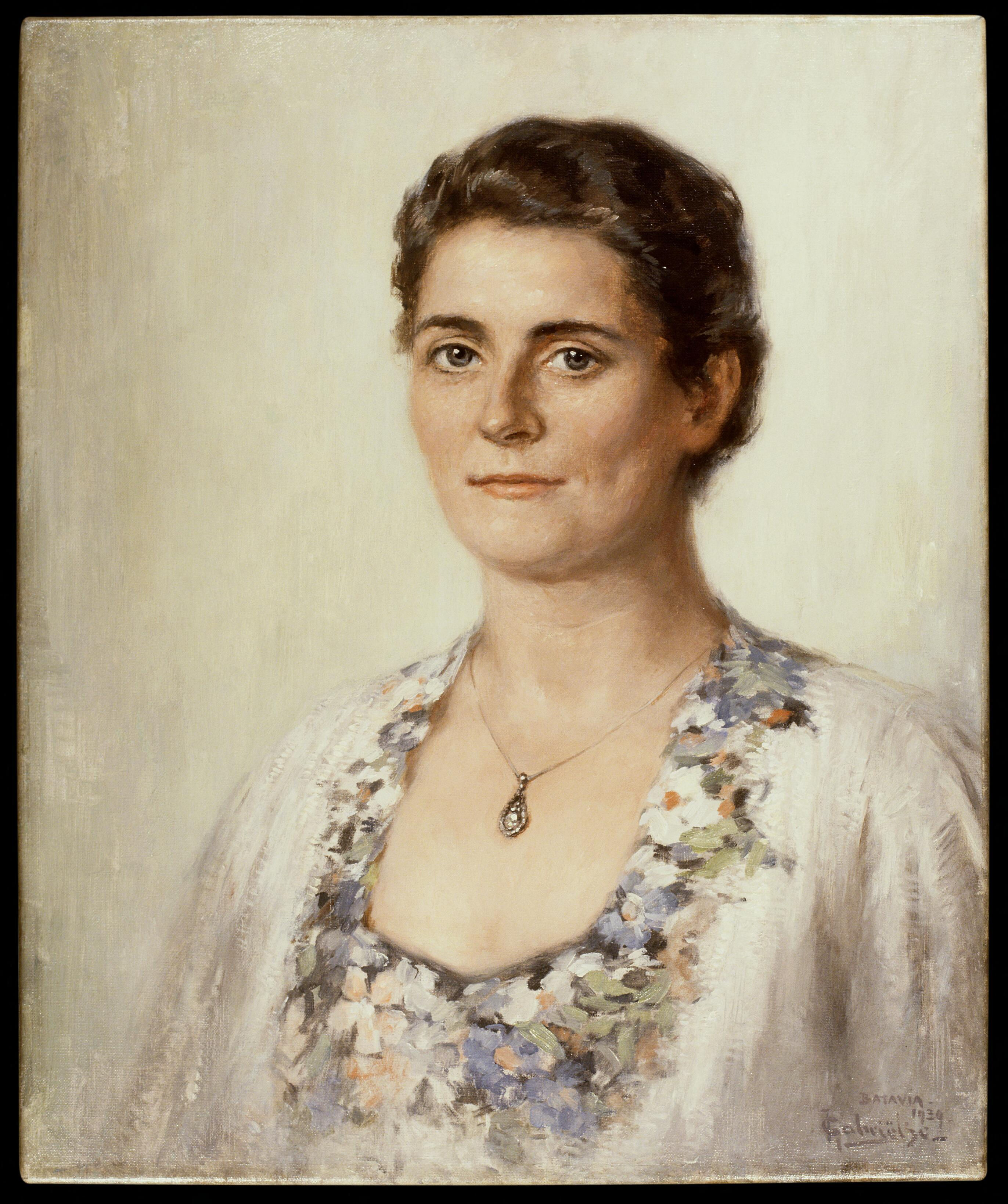 portrait of Maria Suzanna Sligcher, Dutch Herald at the inauguration of Queen Beatrix in 1980